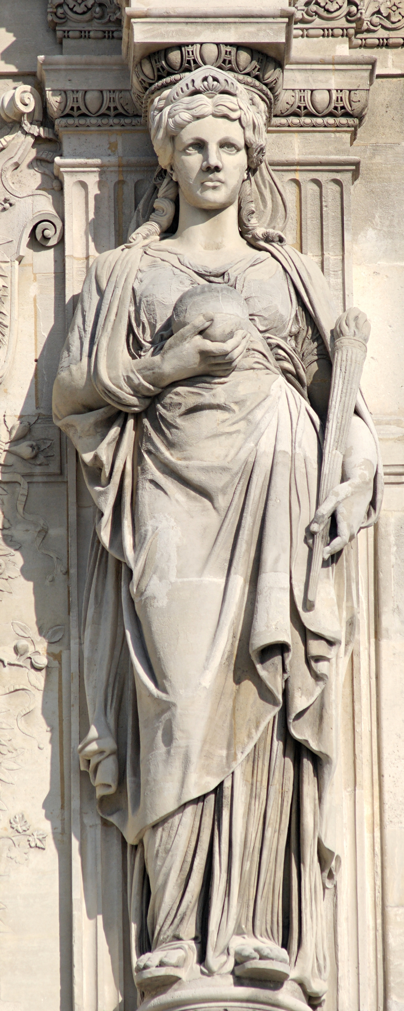 Caryatid by Eugène Guillaume. South side of the Pavillon Turgot, Louvre, Paris.